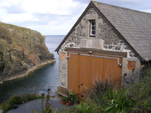 Old RNLI boathouse at Church Cove. The inscribed stone above the boathouse door reads: "THIS BOAT HOUSE WAS ERECTED AND PRESENTED TO THE ROYAL NATIONAL LIFEBOAT INSTITUTION BY TWO COUSINS PARTLY AT THEIR OWN COST AND WITH SOME HELP FROM FRIENDS IN LOVING MEMORY OF THEIR PARENTS THOMAS CHAVASSE ESQ FRCS AND MIRIAM SARAH HIS WIFE AND THE REV HORACE CHAVASSE M.A. AND MARGARET COL????? 1887".